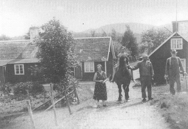 The farm Vallen, Gällsås in Okome parish in the late 1930's. Owner John Johansson (1893-1971) and his family